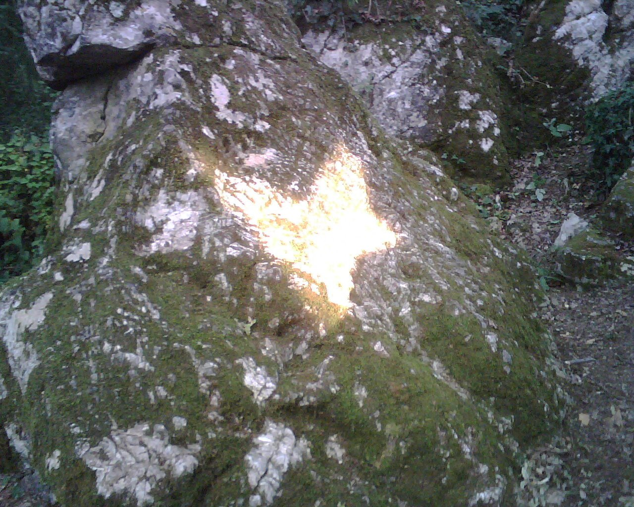 Golden butterfly: a shape formed by the sun during the summer solstice sunset. Mount Caprione, Lerici, SP (Italy)